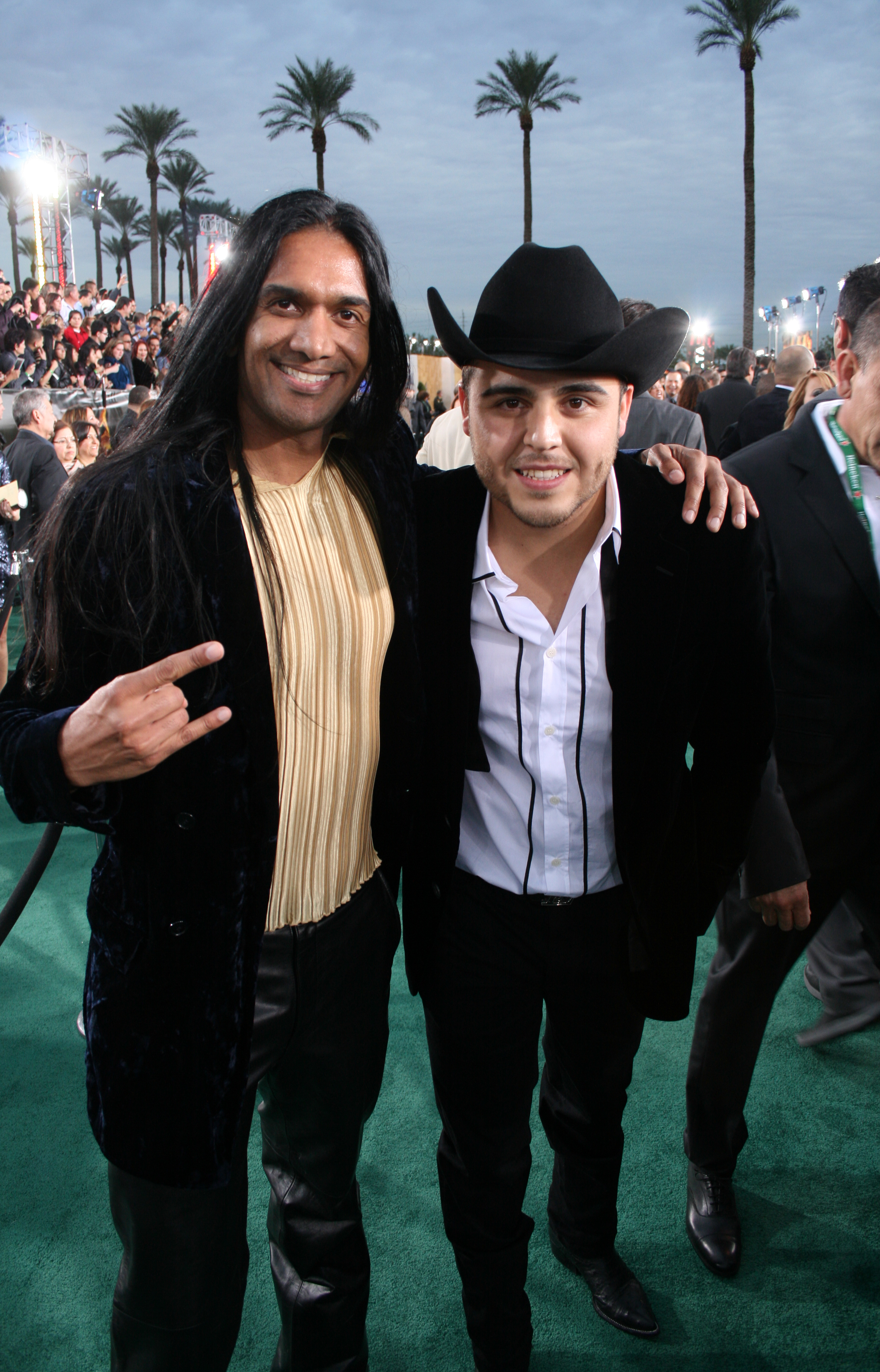 Anand Bhatt (left) and Gerardo Ortiz at the 2012 Latin Grammys